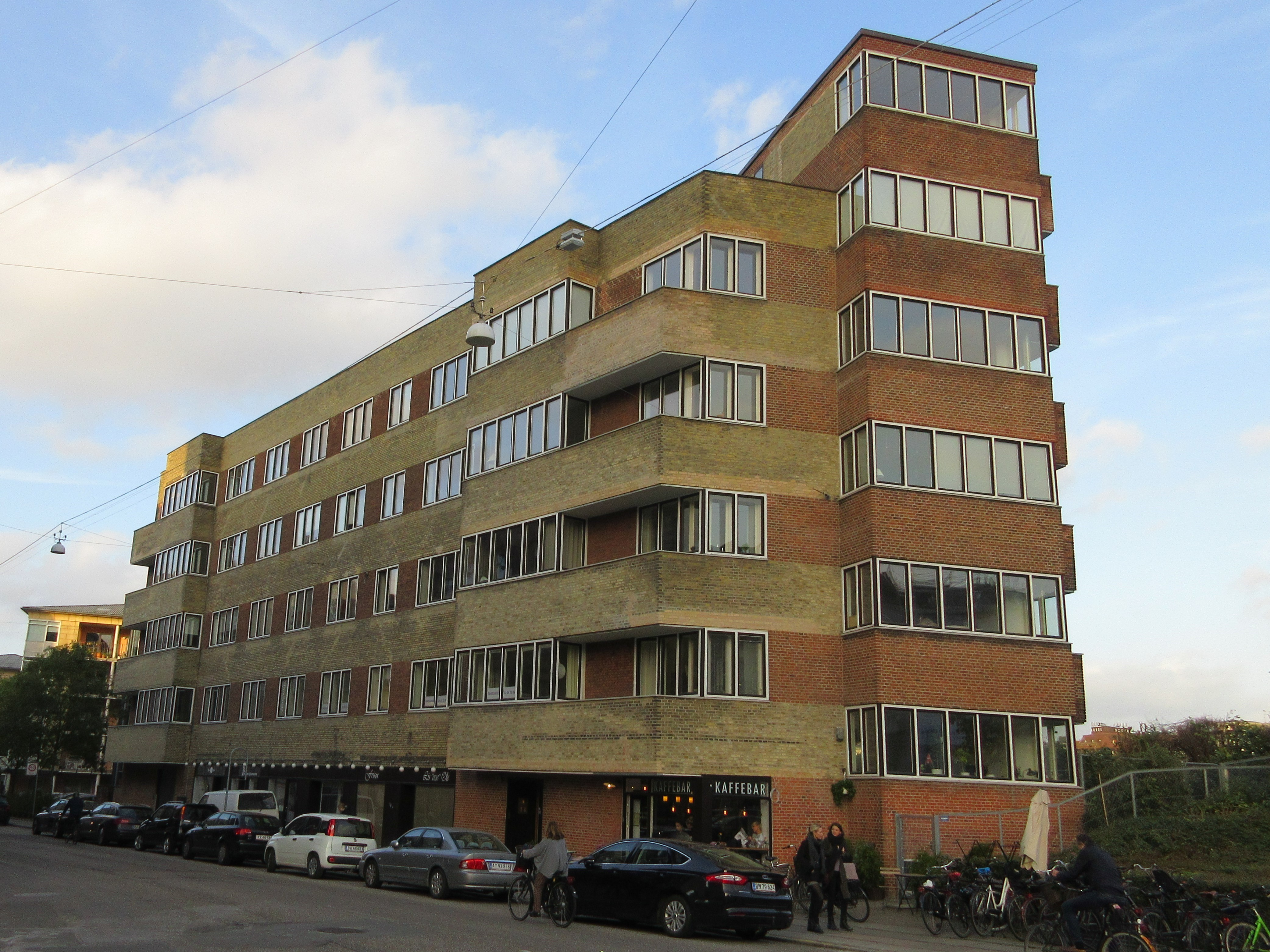 Vodroffsvej 2 in Copenhagen, Denmark